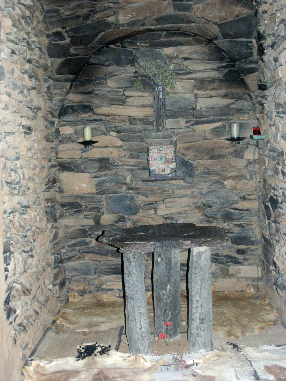 Inside of the Ermitage of Foucauld in the Assekrem mountain (Hoggar, Algeria)